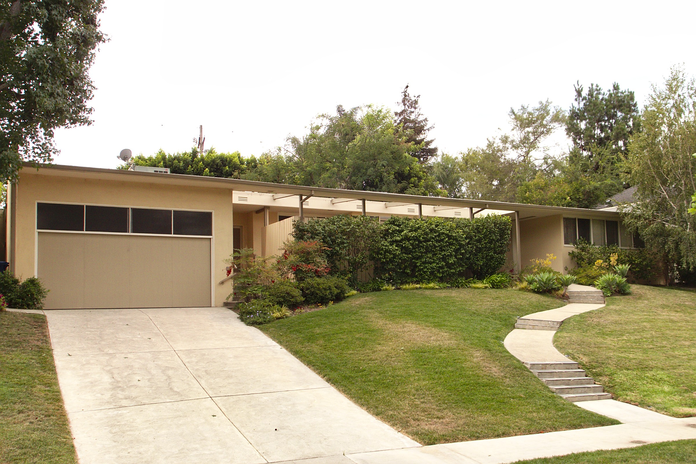 Street view of Case Study House No. 1 — at 10152 Toluca Lake Avenue, North Hollywood, Los Angeles, California. Designed by J. R. Davidson, and built in 1948. [1] On the National Register of Historic Places in Los Angeles.